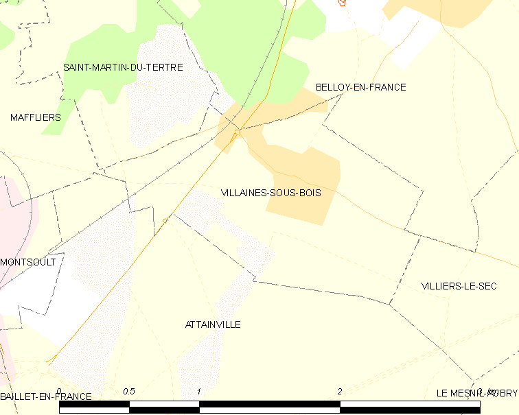 Map of French municipality Villaines-sous-Bois